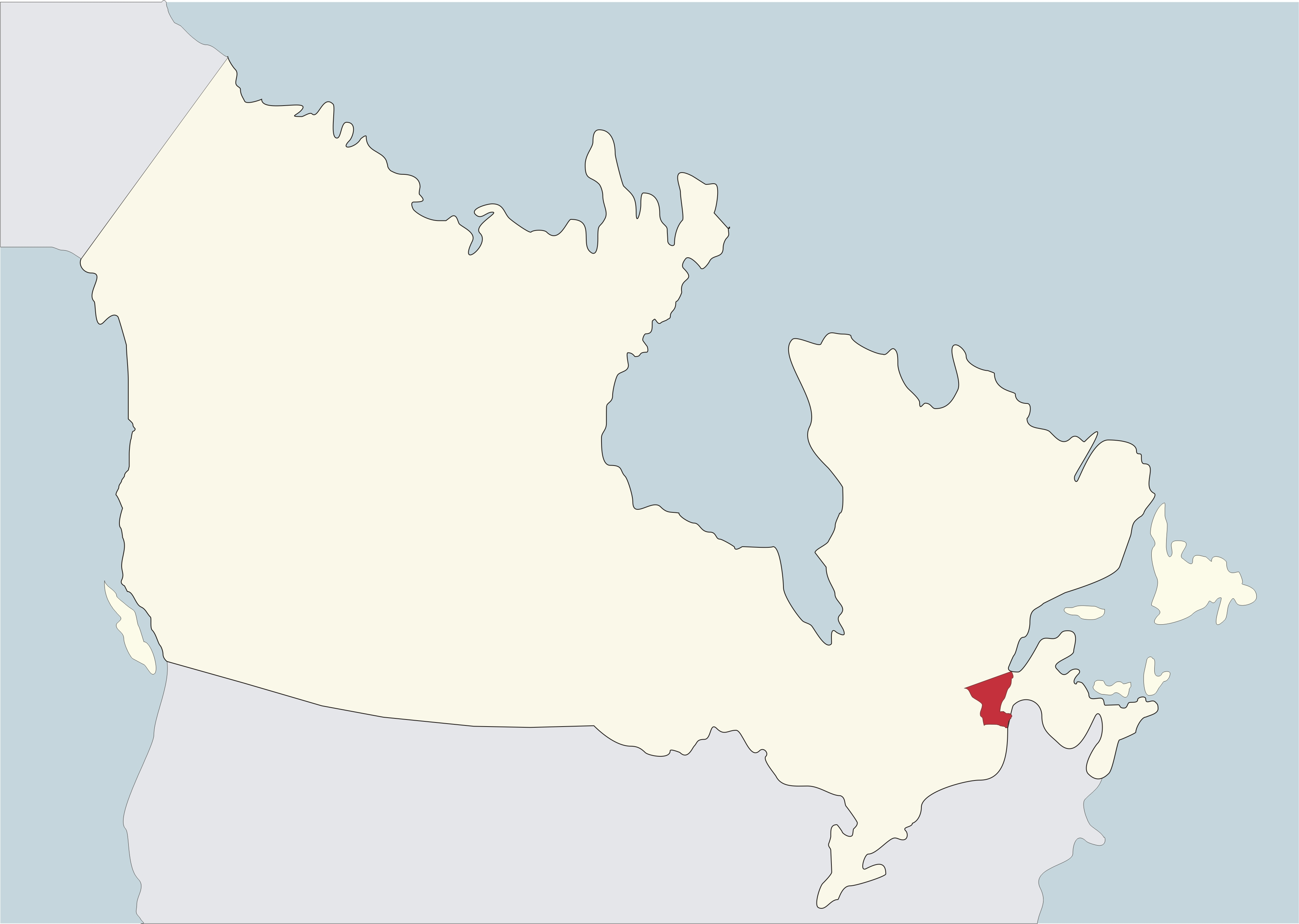 Map of the Roman Catholic Archdiocese of Quebec in Canada